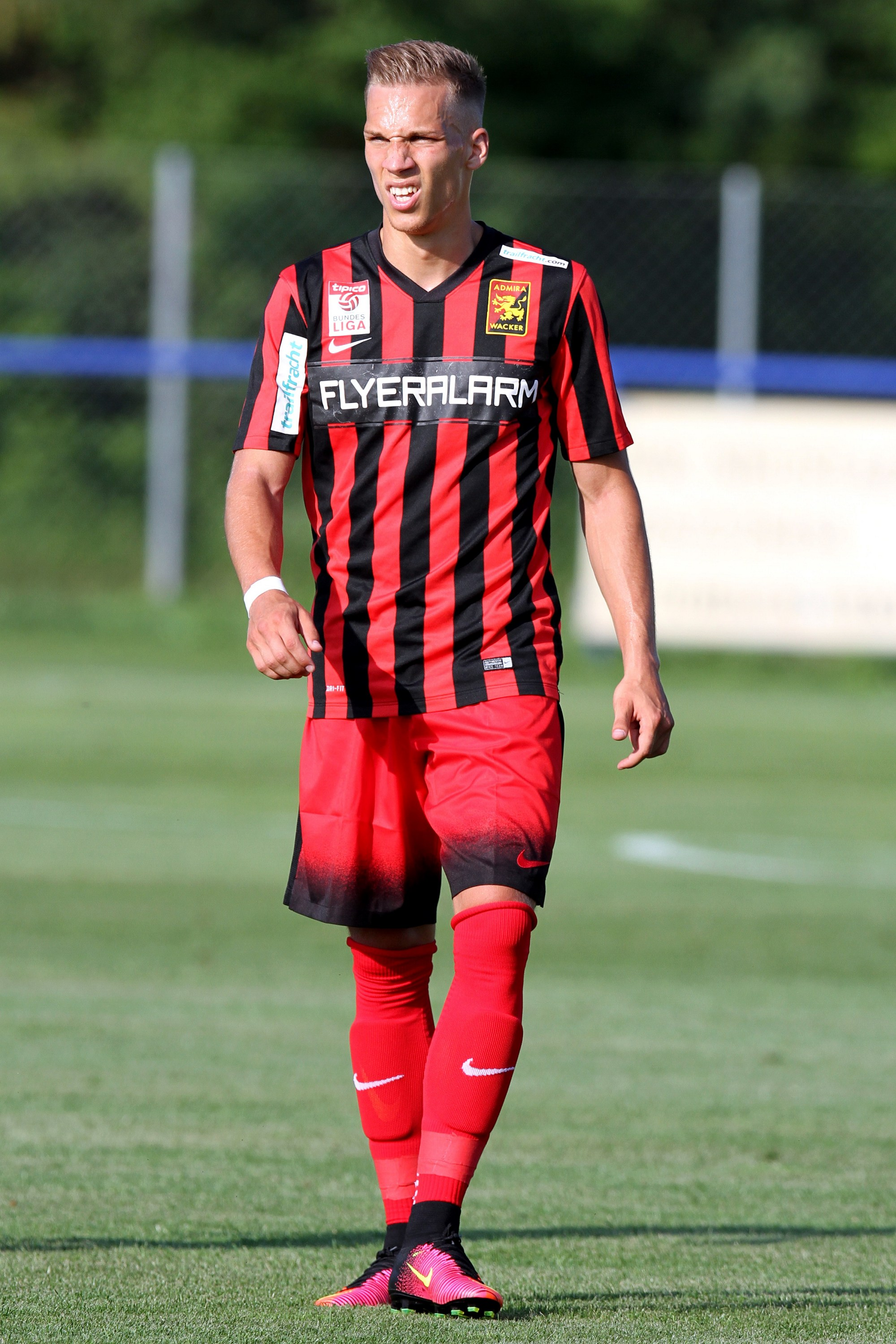 Friendly match FC Terek Grozny vs. FC Admira Wacker Mödling (0-1) at 2016-06-24 in Bad Erlach – The photo shows Christoph Monschein (FC Admira Wacker Mödling).